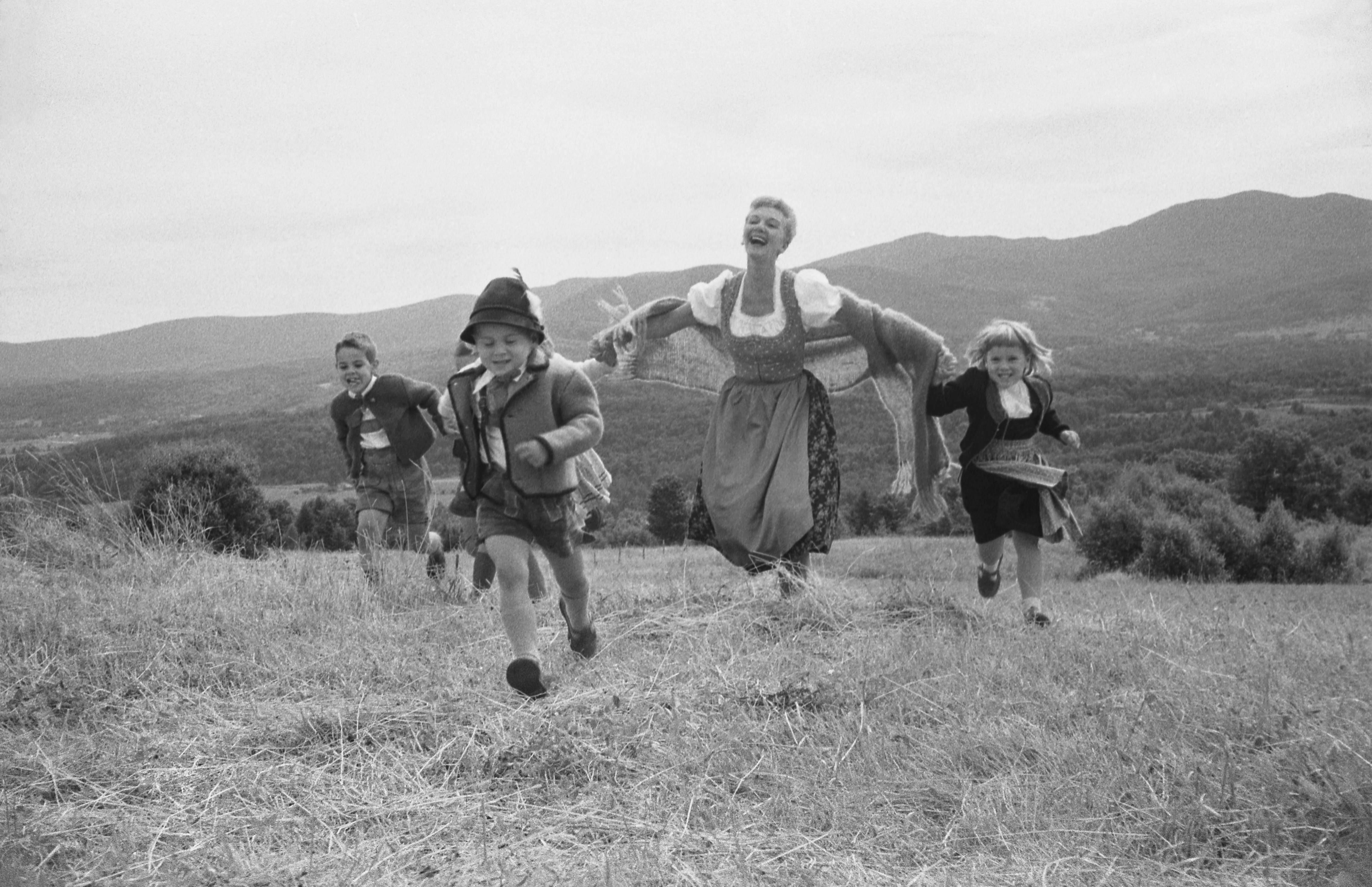 Mary Martin with children, during production of the Broadway musical The Sound of Music.